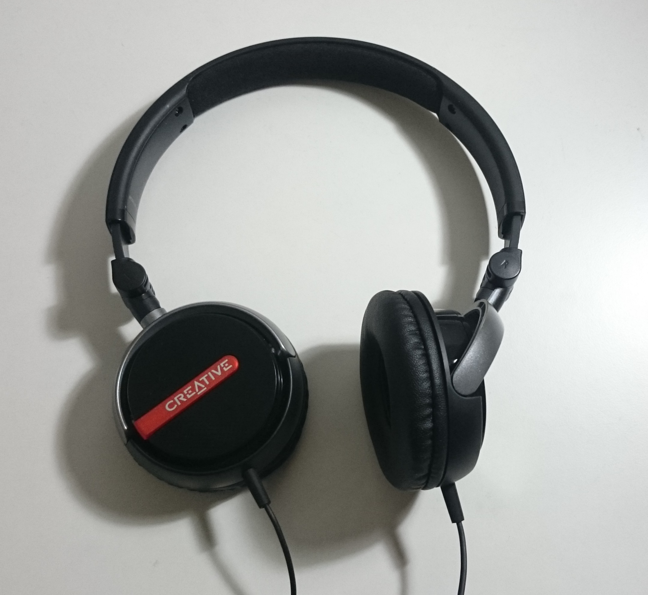 A photo of the Creative Flex headset.